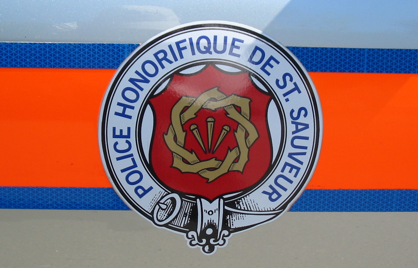 Jersey